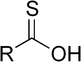 general chemical structure of a thiocarboxy compound (thiocarboxylic acid)